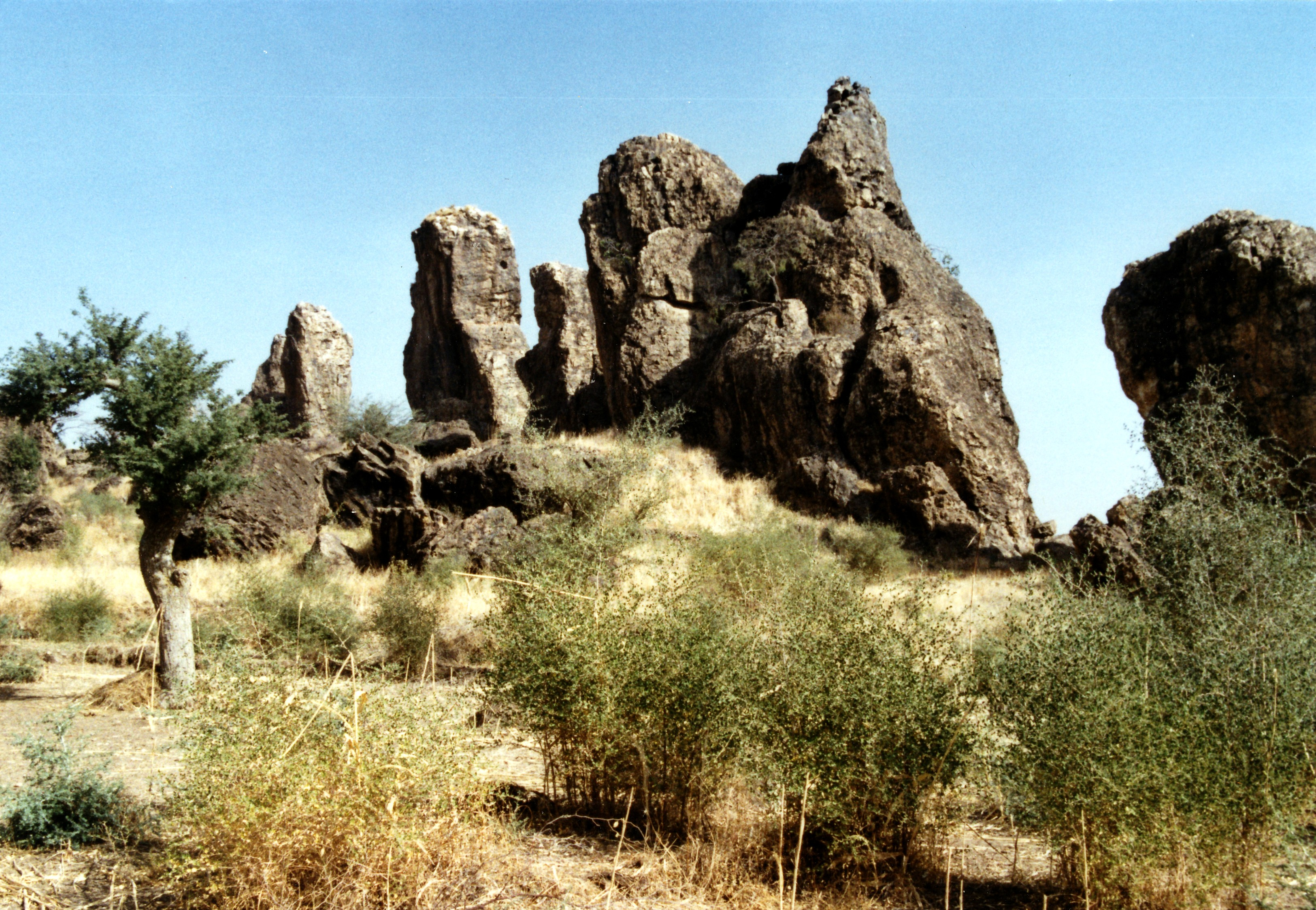 Volcanic outcroppings in kapsiki country